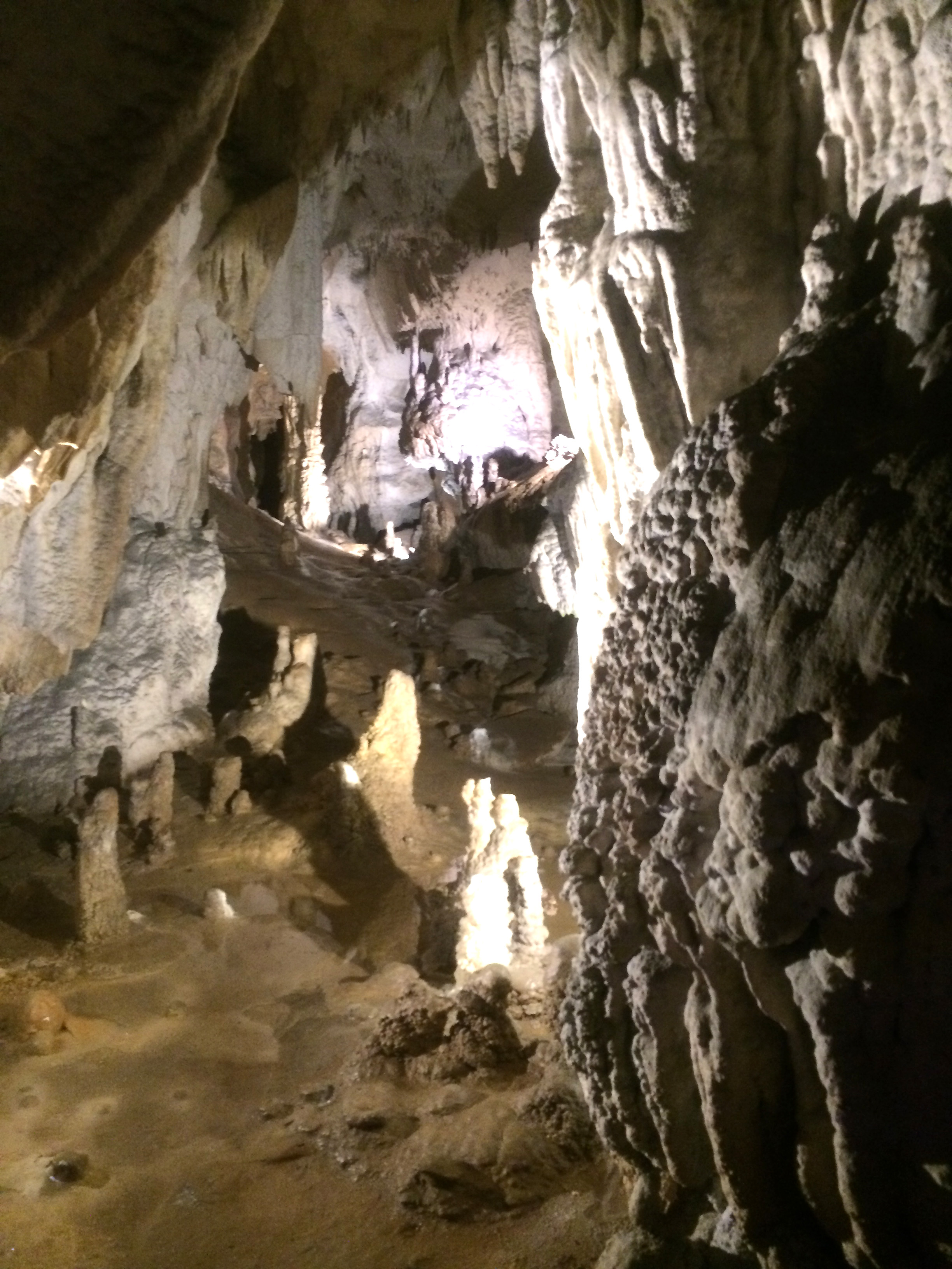 Aritzakun-Urritzate-Gorramendi, Ikaburu cave in Urdax